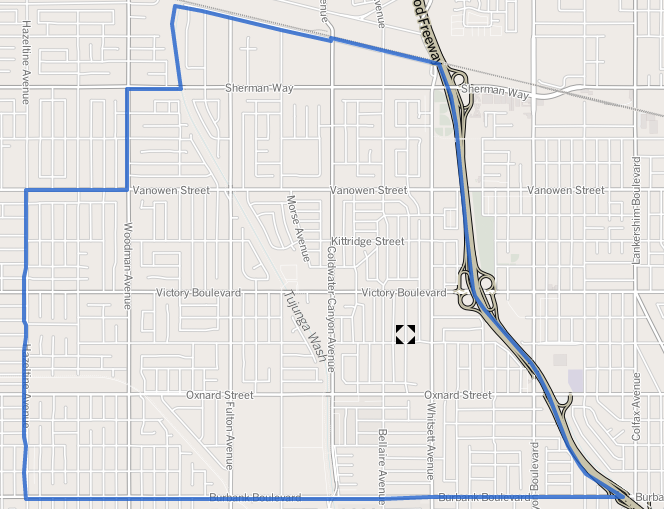 Geographical boundaries of Valley Glen neighborhood, Los Angeles, California. To be used in Valley Glen Other information Further info in bottom right corner of the map, stating "Powered by Leaflet — Map data (c) OpenStreetMap contributors, CC-BY-SA."